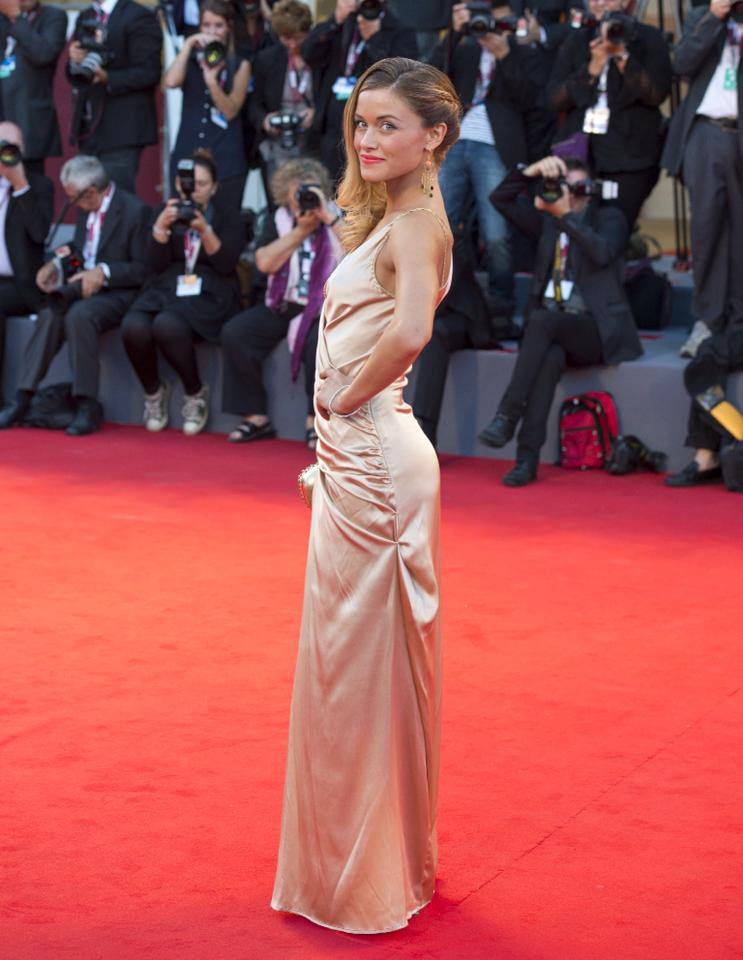 Alice Bellagamba on the red carpet of the 70th Venice International Film Festival (2013)